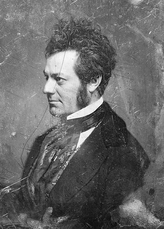 Edwin Forrest, American actor